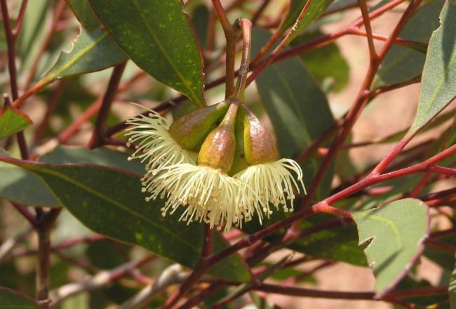 Flowers of Eucalyptus celastroides near Floater Road, Ravensthorpe